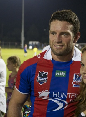 Danny Buderus getting pictures.